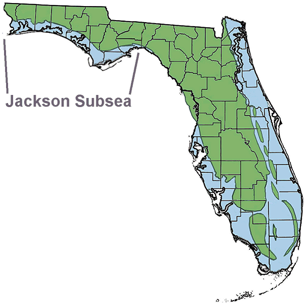 Pliocene-Pleistocene Florida map created using sketch by Petuch, Edward J.